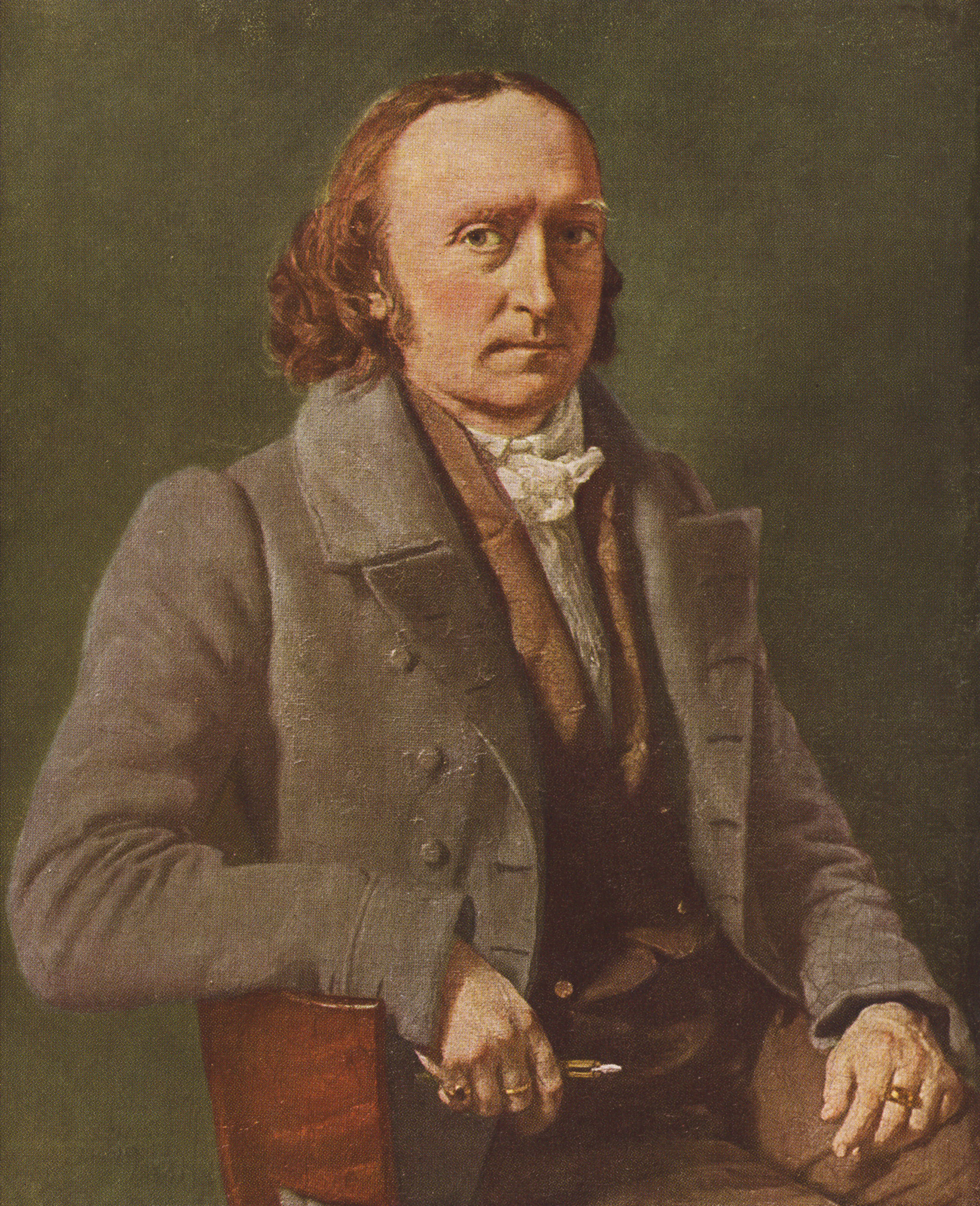 Christian Albrecht Jensen (1792-1870), Danish portrait painter by himself (1836).